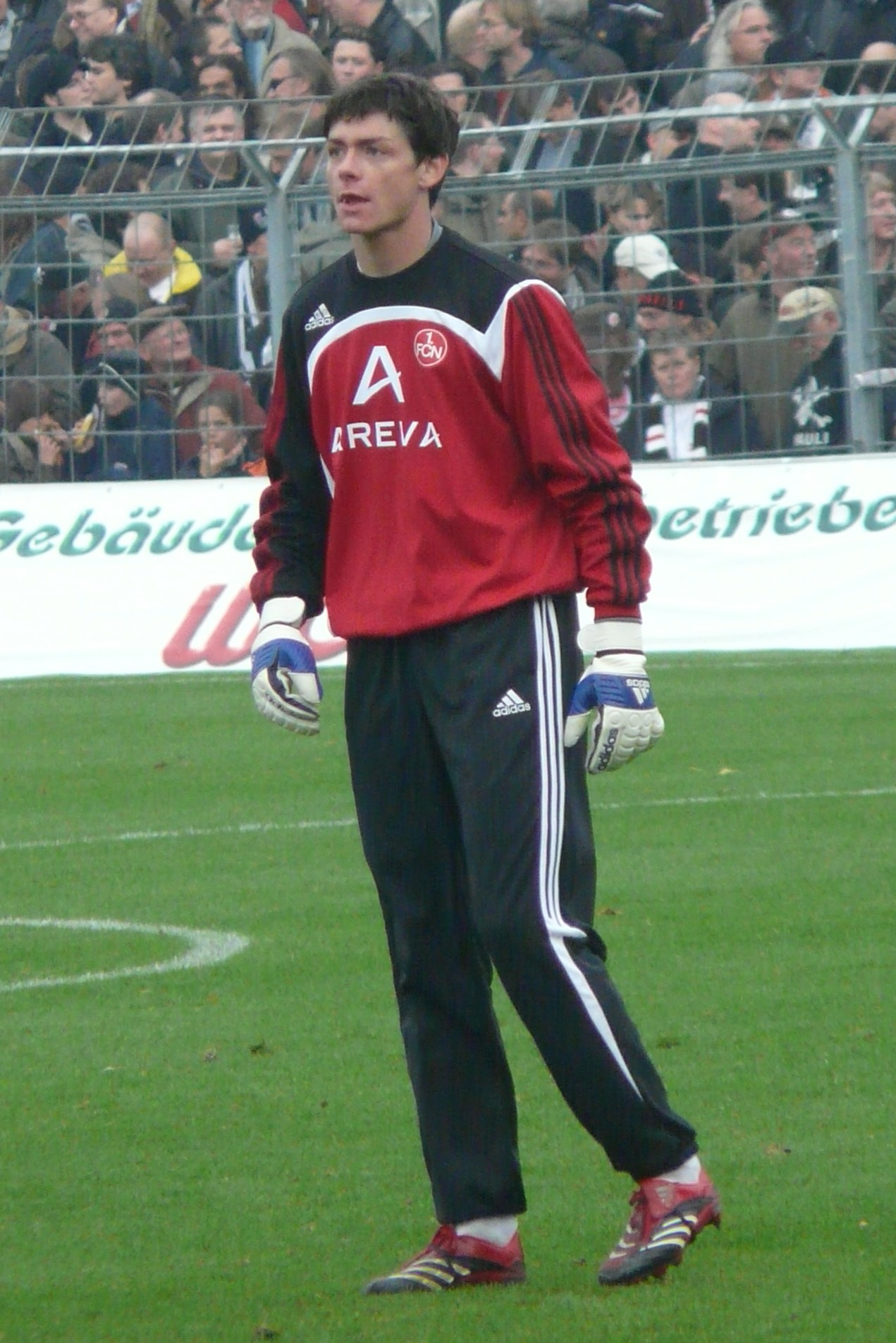 Andreas Sponsel as Player from 1.FC Nürnberg